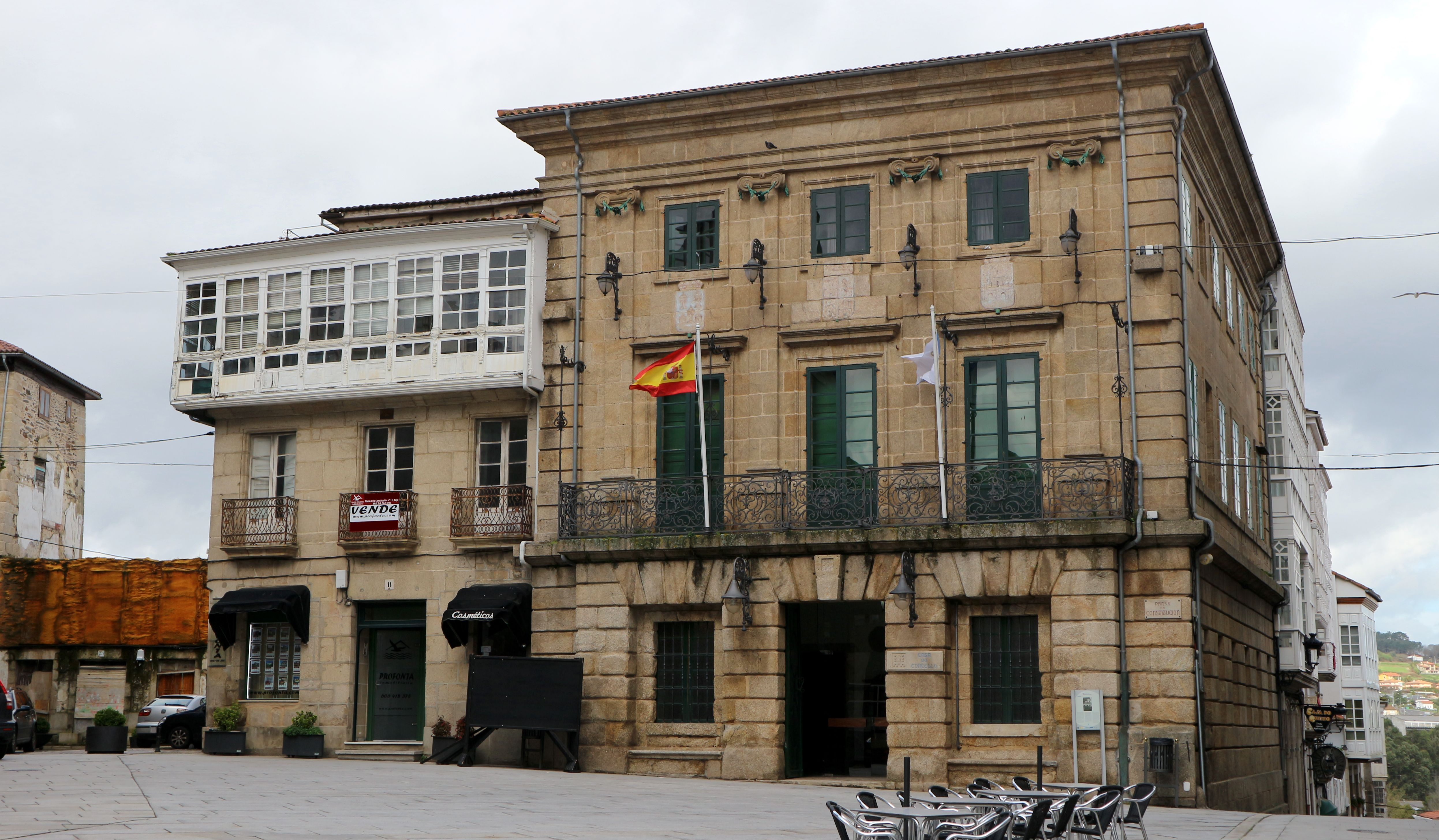 Town Hall of Betanzos.